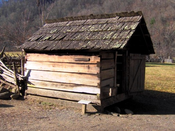 Springhouse at the Oconaluftee Mountain Farm Museum in the Great Smoky Mountains of North Carolina, USA. This springhouse was originally located in the park's Cataloochee section (across the high ridge to the northeast).